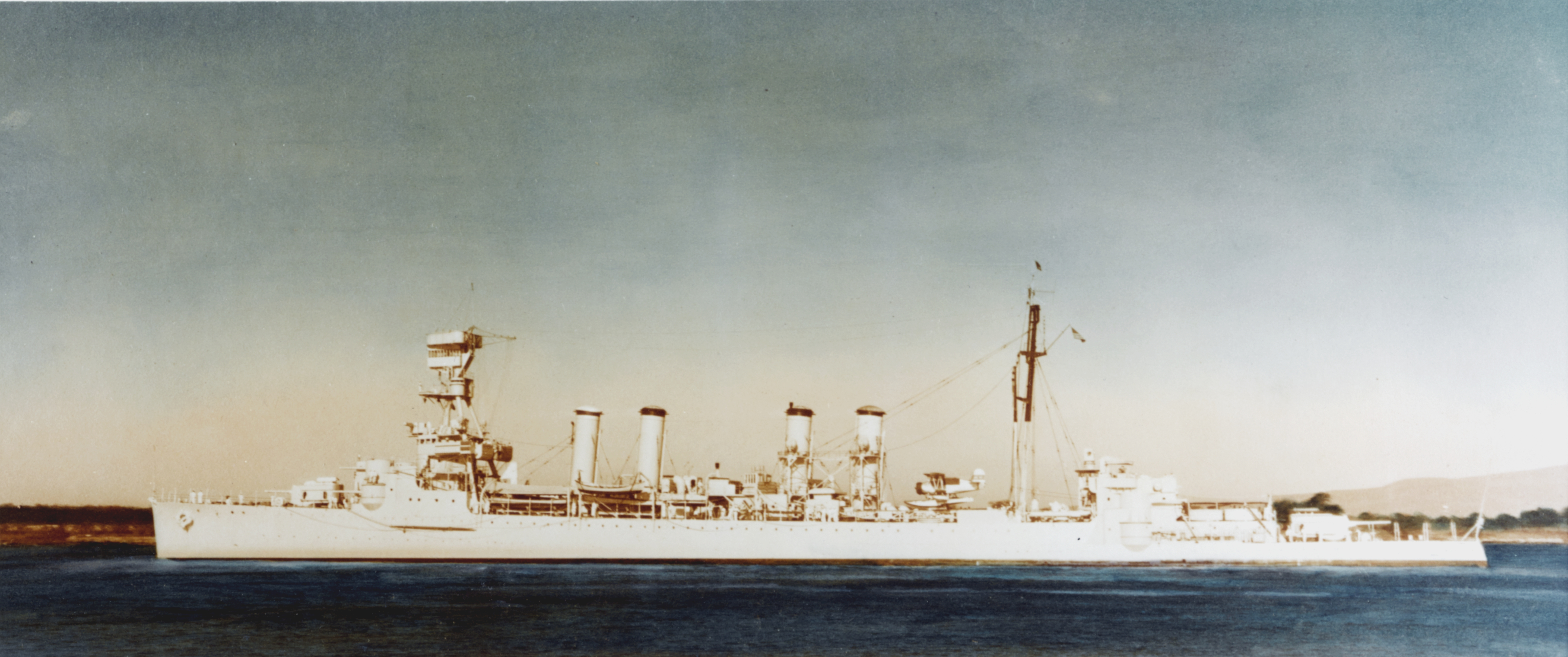 The U.S. Navy light cruiser USS Trenton (CL-11) in Pearl Harbor, Hawaii (T.H.) during the later 1930s.